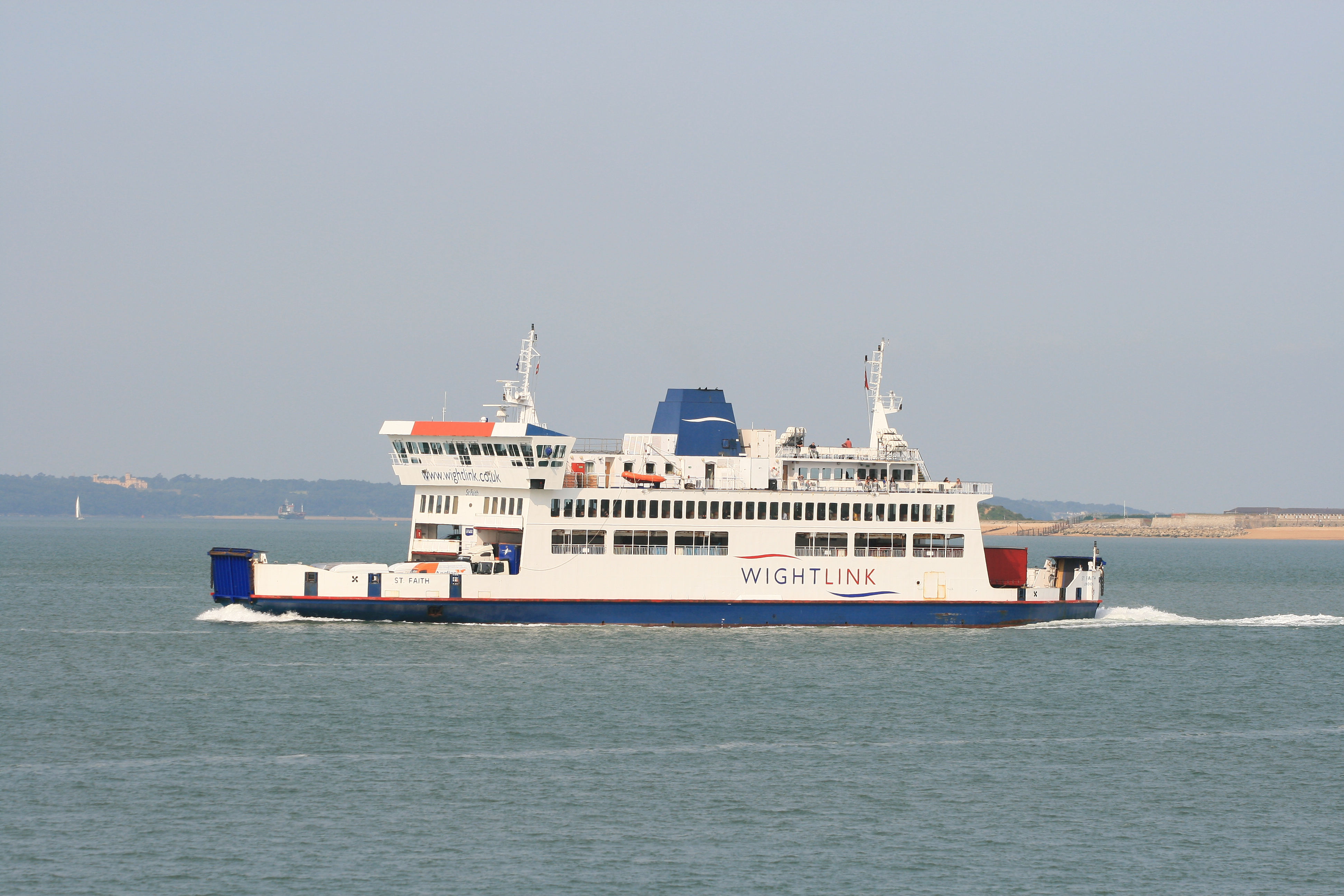 Wightlink car ferry St Faith outbound from Portsmouth to Fishbourne on the Isle of Wight turning from the main shipping deep water channel into the Swash Channel on 27 June 2013. Wikipedia editors are reminded that the copyright remains with the photographer, and that the terms of the Creative Commons (CC), Attribution (BY), Share Alike (SA) CC-BY-SA-3.0 that allow editors to reuse this image apply to Wikipedia editors also, as they do to other re-users of this image. Breaches of the licence terms are not only unlawful, but are also antisocial, in that breaches discourage photographers from making their images freely available to everyone without payment. Wikipedia re-users are also reminded of the license terms that derivatives of this image should not imply that the adaptation is endorsed or approved by the author or copyright holder. Neither should derivatives be presented as the creation of the author or copyright holder, while clearly stating that the adaptation is a derivative of the original. Attribution online should be in this format Brian Burnell. On the printed page, a simpler form is acceptable - example: "Image: Brian Burnell".